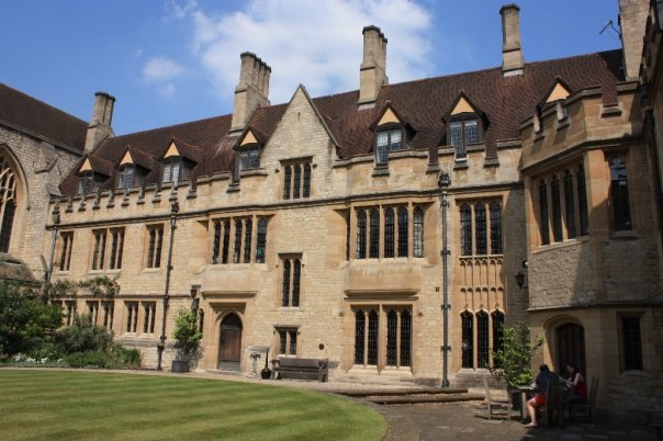 A view of the Blackwell Quadrangle at St Cross College, Oxford